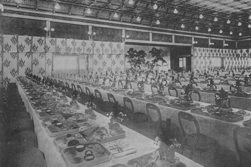 Taisho Daikyo-no-gi (Grand Banquets)